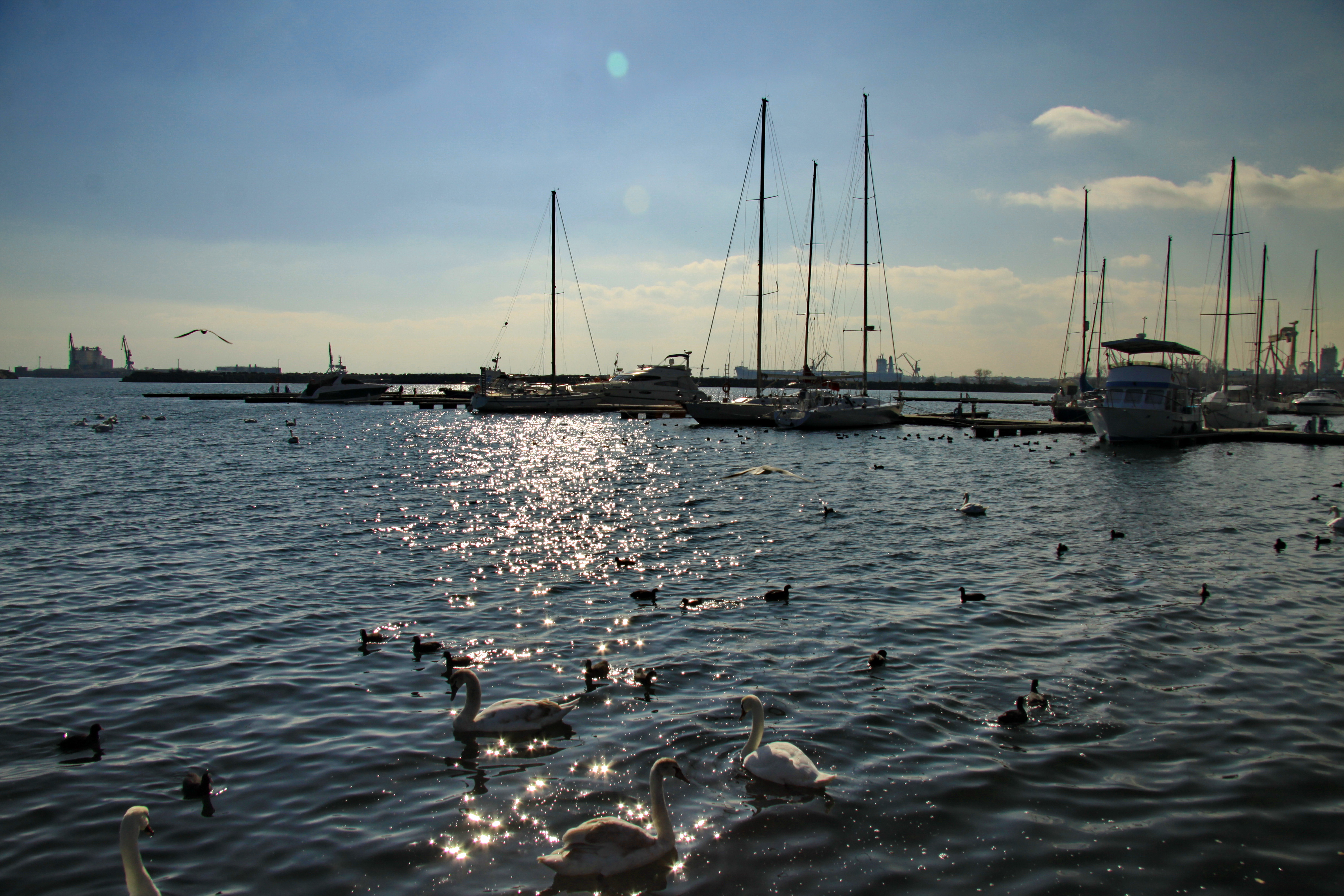 Mangalia harbour (Black Sea, Romania)